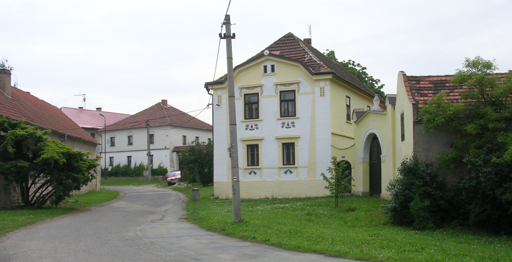 Nová Ves-Vepřek, Mělník District, Central Bohemian Region, the Czech Republic.